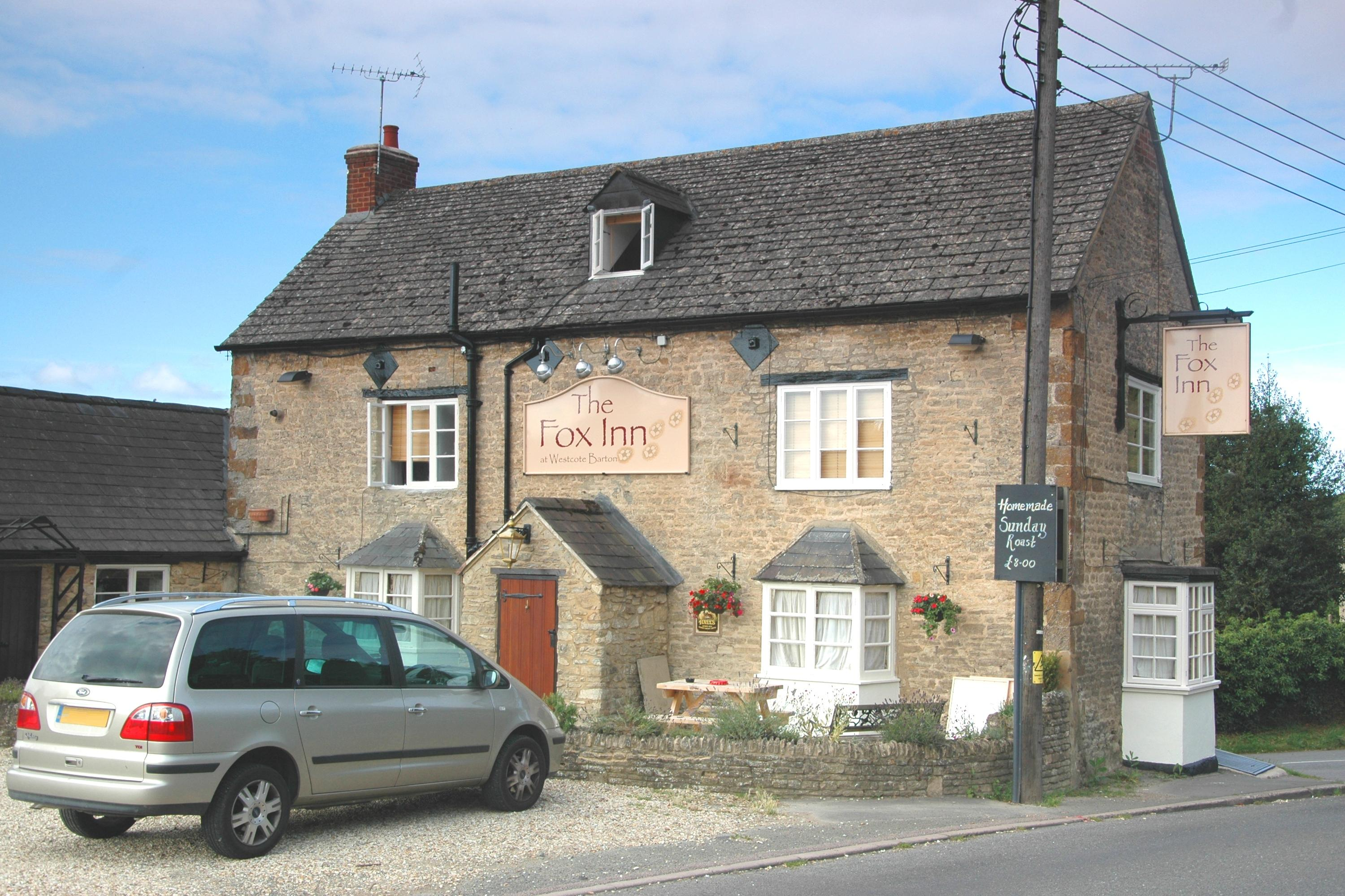 The Fox public house, Enstone Road, Wescot Barton or Westcott Barton, Oxfordshire